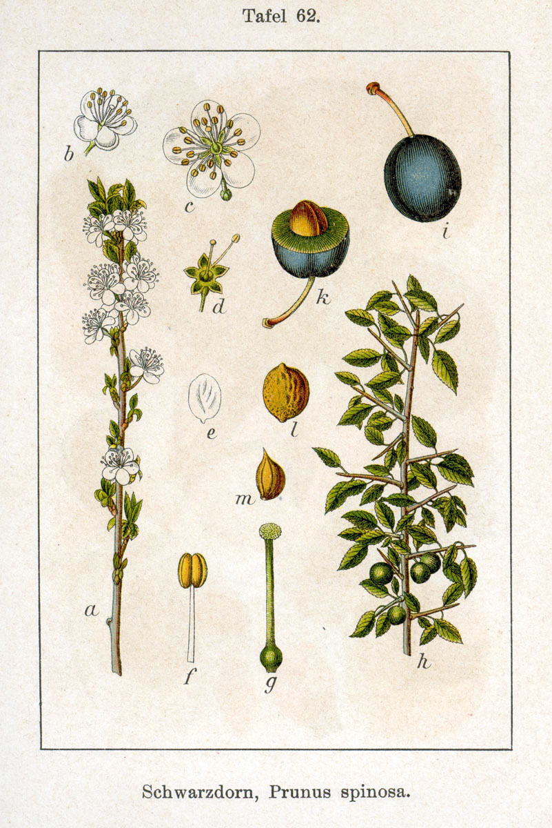 Prunus spinosa L. s. str. Original Description Schwarzdorn, Prunus spinosa